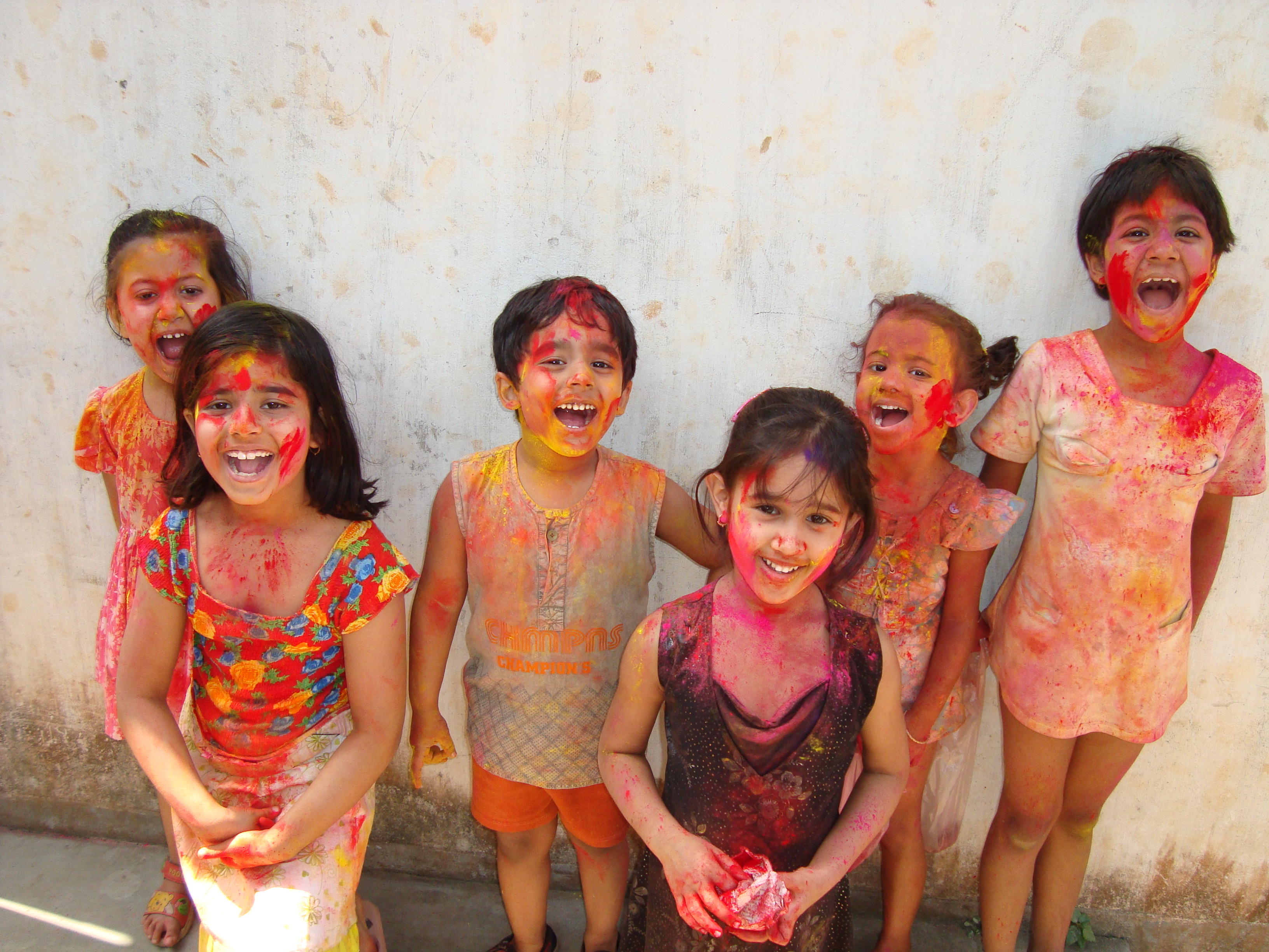 'HOLI' is such a fun-filled culture in India, I couldn't stop sharing it with you all.